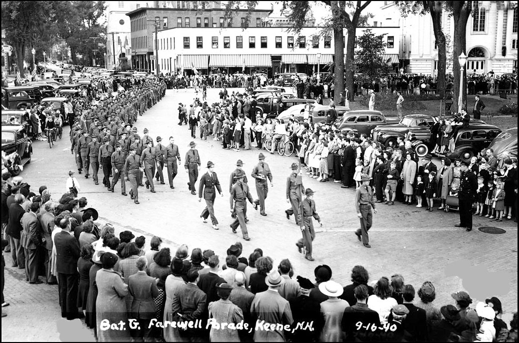 TITLE Battery G Farewell Parade, Keene NH -1940 CREATOR SUBJECT Parades & processions - NH - Keene Military parades & ceremonies - NH - Keene Marching - NH - Keene DESCRIPTION Photograph of the New Hampshire National Guard Battalion G, 197th Coast Artillery, marching in their Farewell Parade in Keene New Hampshire, 1940. PUBLISHER Keene Public Library DATE DIGITAL 20080215 DATE ORIGINAL 19400916 RESOURCE TYPE photographic postcards FORMAT image/jpg RESOURCE IDENTIFIER hsykprd005 RIGHTS MANAGMENT No known restriction on publication.